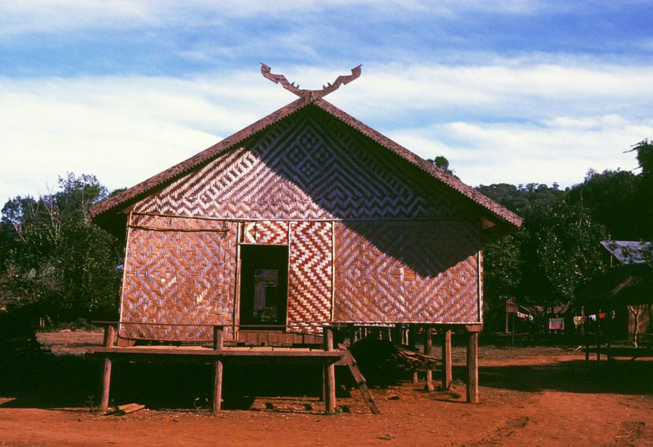 Cambodia, Kreung village near Ban Lung, meeting house (Ratanakkiri province)